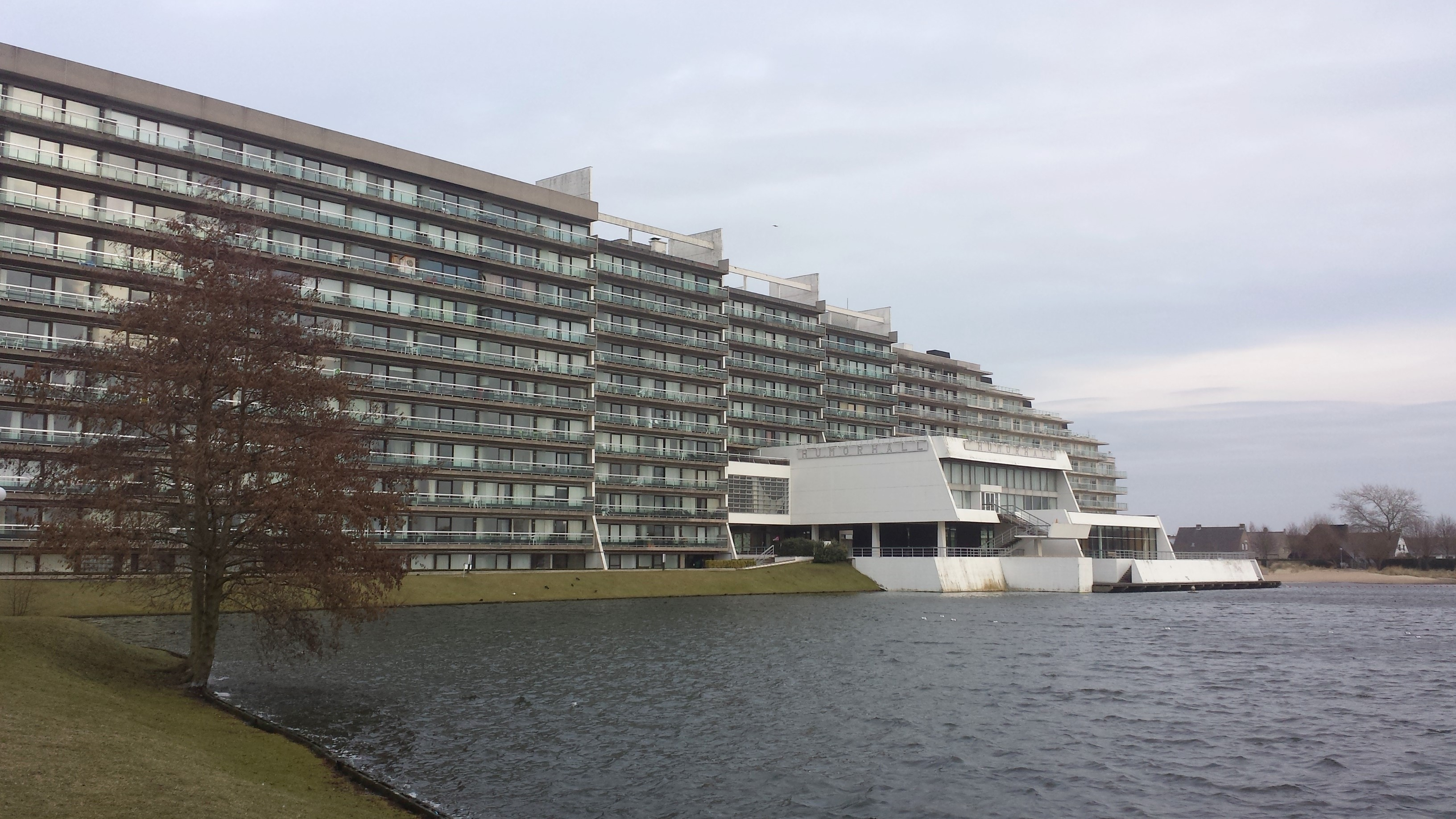 'Laguna Beach' Residence and 'Humorhall' (Krommedijk, 8300 Knokke-Heist, Belgium) seen from Lake Heist